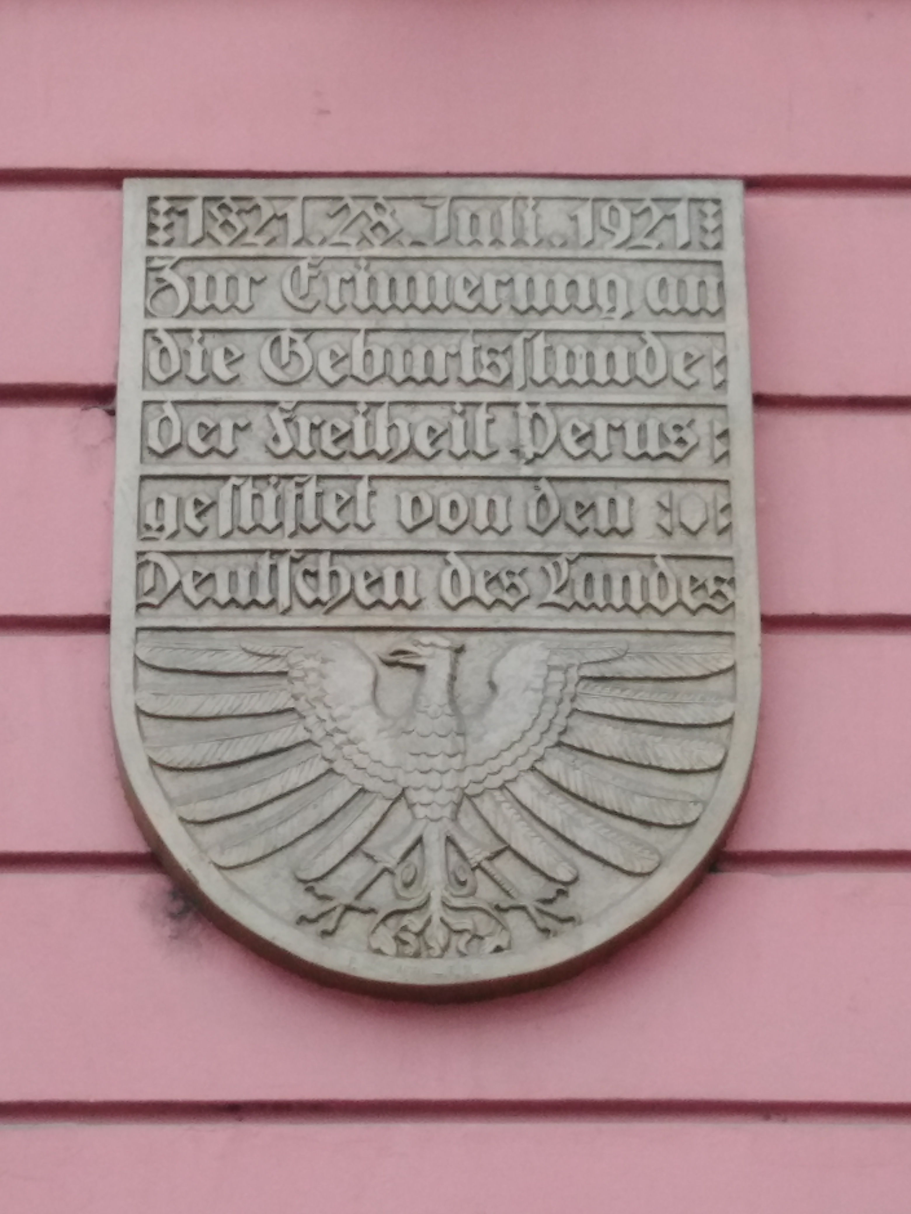 German Tower of Lima, Peru